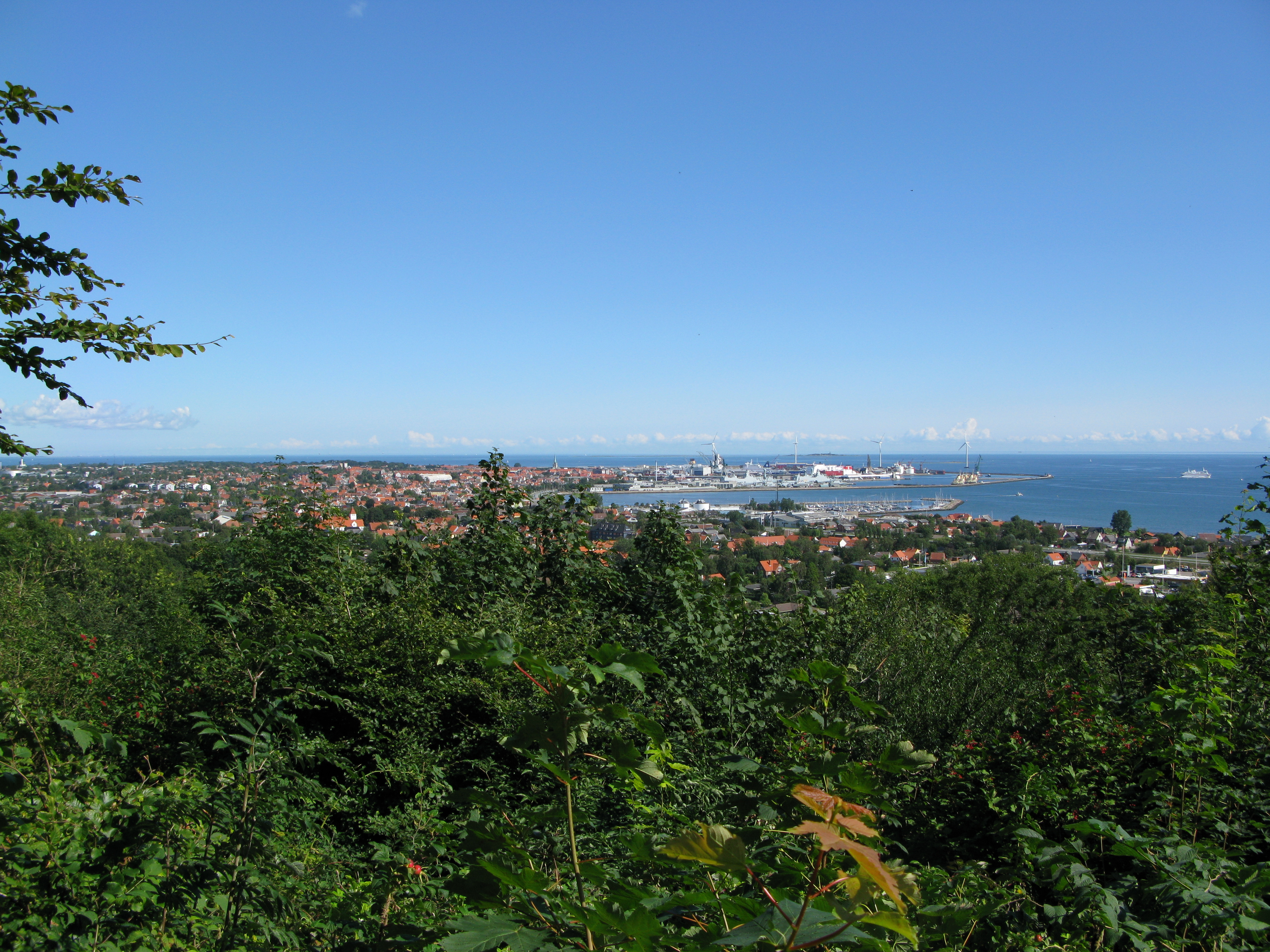 Pikkerbakken, lookout point in Frederikshavn (Denmark)